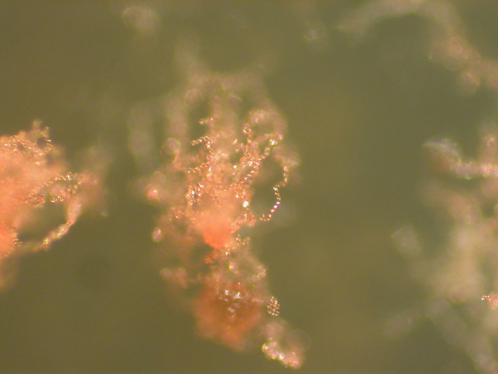 The heterolobosean protozoa, Acrasis rosea Olive & Stoian. Photographed at the Biology of Fungi Lab, UC Berkeley, California.